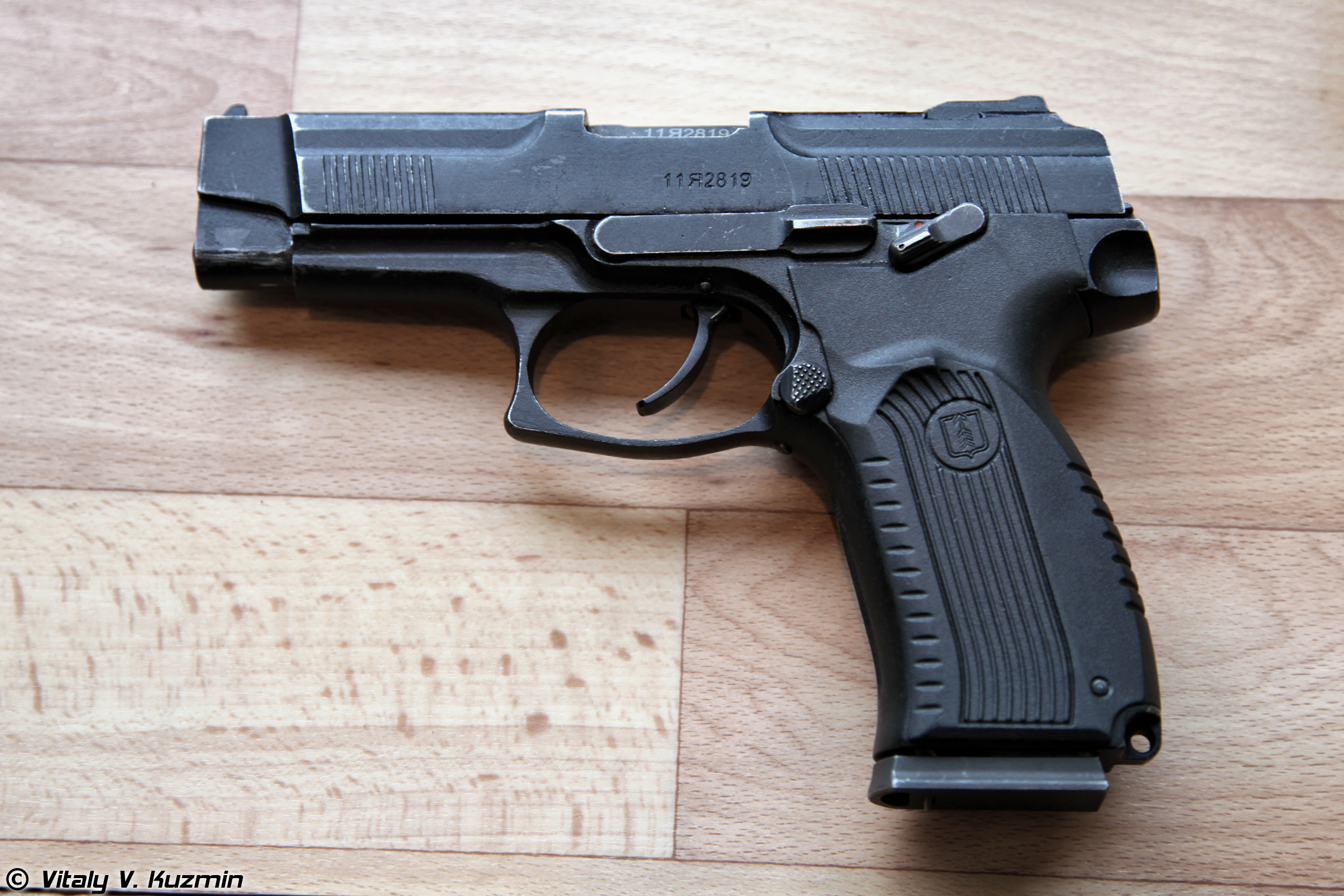 Yarygin pistol PYa - Celebration of 70th anniversary of the Victory in the Battle of Stalingrad in TSNIITOCHMASH